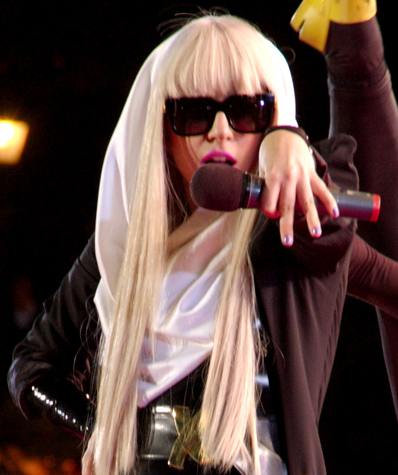 Lady Gaga performing at Gröna Lund, Stockholm, 2008